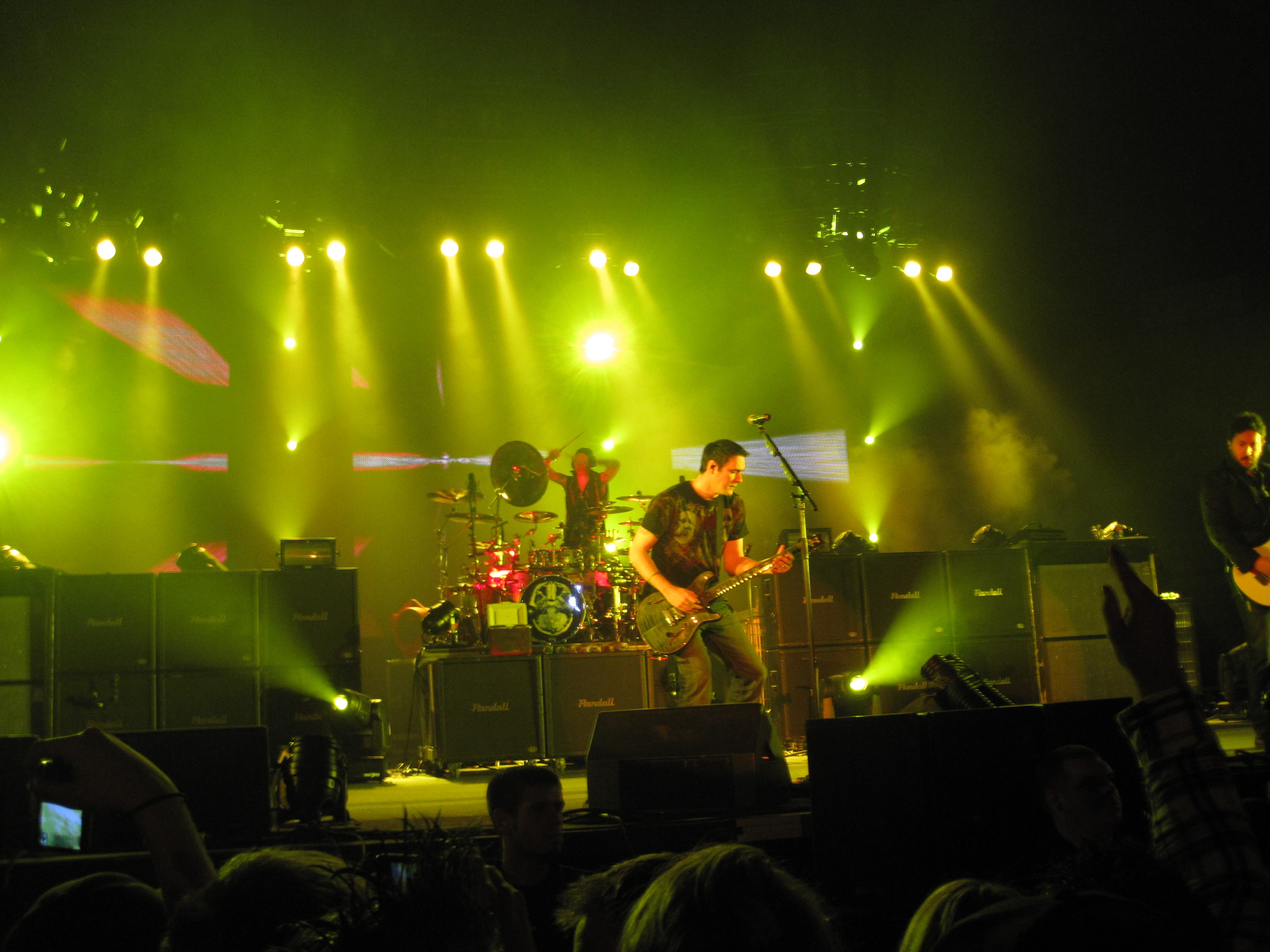 Breaking Benjamin performing at the Allen County War Memorial Coliseum in Fort Wayne, IN on January 30, 2010.